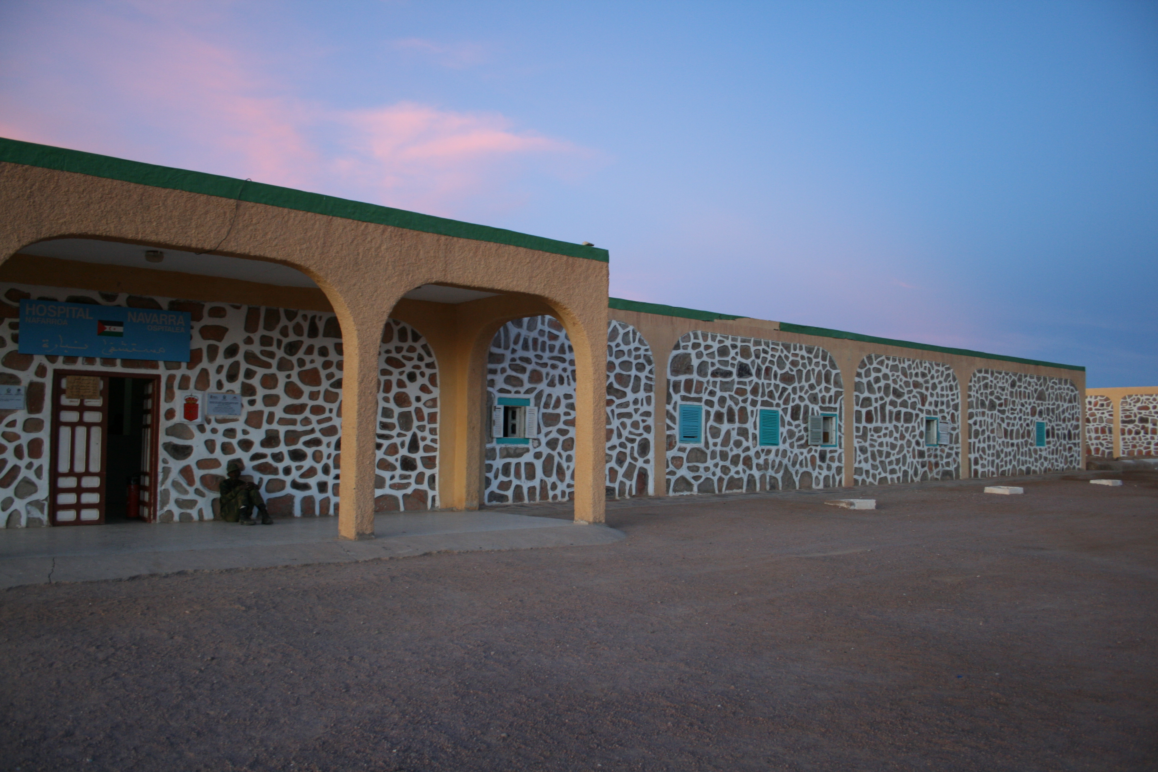 Photograph of Navarra Hospital in Tifariti, Saharawi Arab Democratic Republic—Western Sahara.